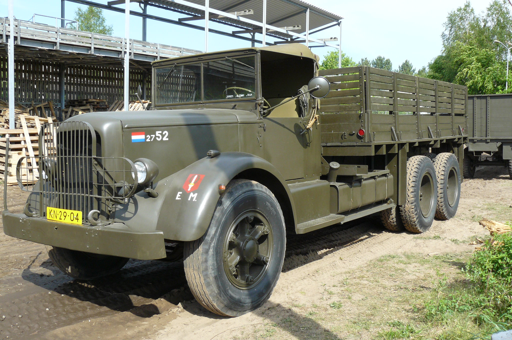 Mack NR heavy truck as used by allied troops in World War 2. Seen at Brigdehead, Bussum, Netherlands. May 2011